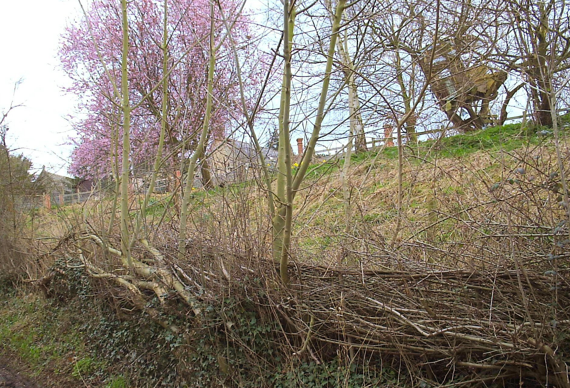 A hedge re laid about three years ago - showing how it has grown into shape. In the top left of the picture, you can just make out the East end of St Mary's church, Grendon, Northamptonshire.